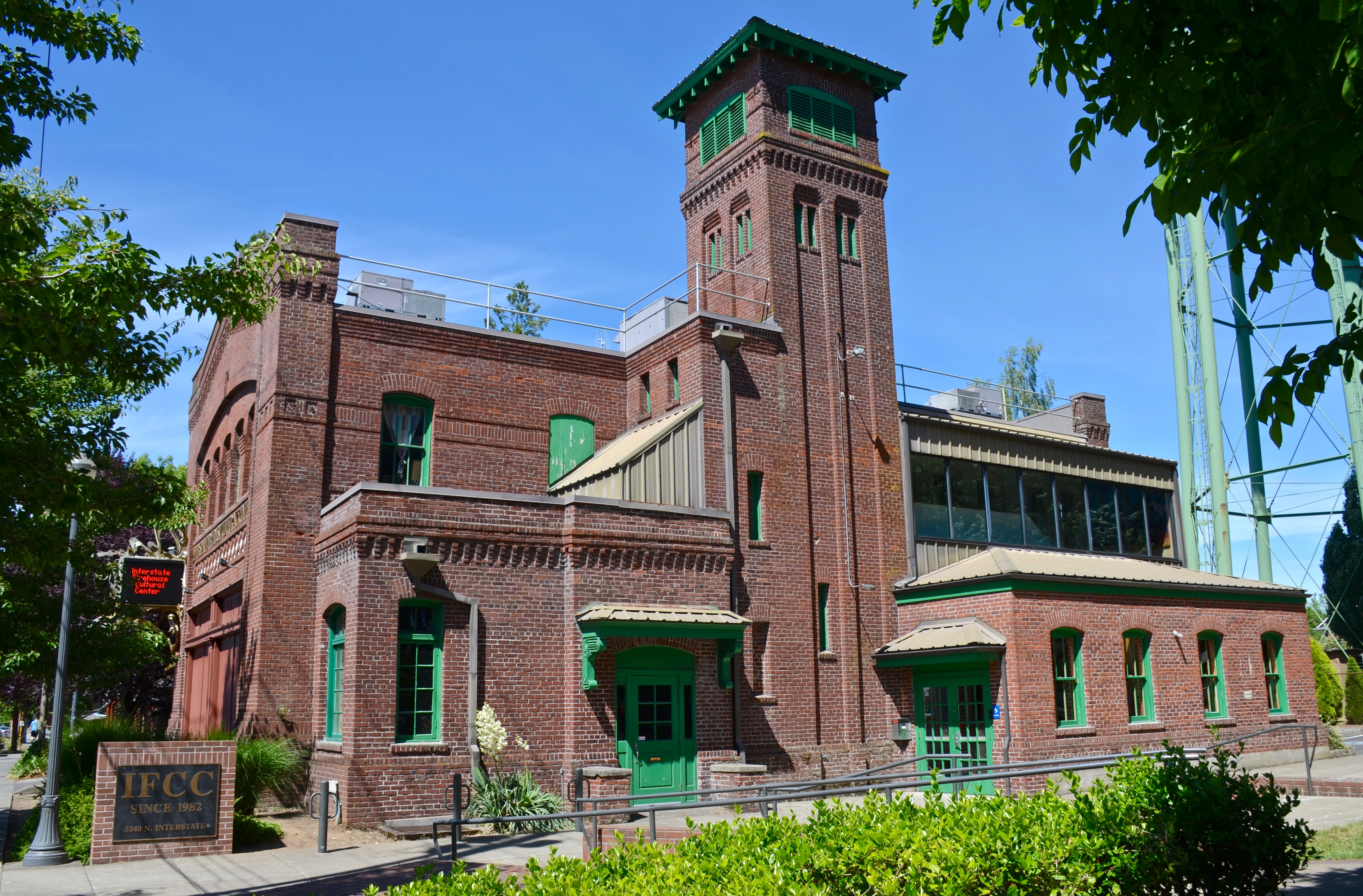 The Interstate Firehouse Cultural Center, in Portland, Oregon, occupies a 1910-built former fire station on North Interstate Avenue.